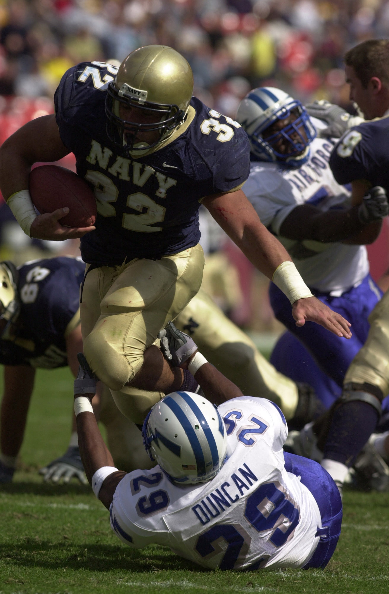 Landover, Md. (Oct. 4, 2003) Navy Junior Fullback Kyle Eckel runs over Air Force Academy free safety Larry Duncan. Navy upset Air Force 28-25 in the inter-service game at FedEx field in Landover, Md. The Midshipmen snapped a six-game losing streak to the Falcons with the victory. The victory put Navy in excellent position to win the Commander-In-Chief's Trophy, awarded to the team with the best record in games between the three major service academies. The trophy will be up for grabs when Navy plays Army Dec. 6. U.S. Navy photo by Journalist 1st Class Mark D. Faram (RELEASED)